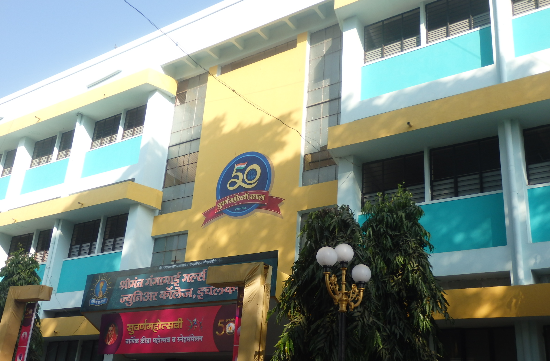 Gangamai Girls' High school,Ichalkaranaji